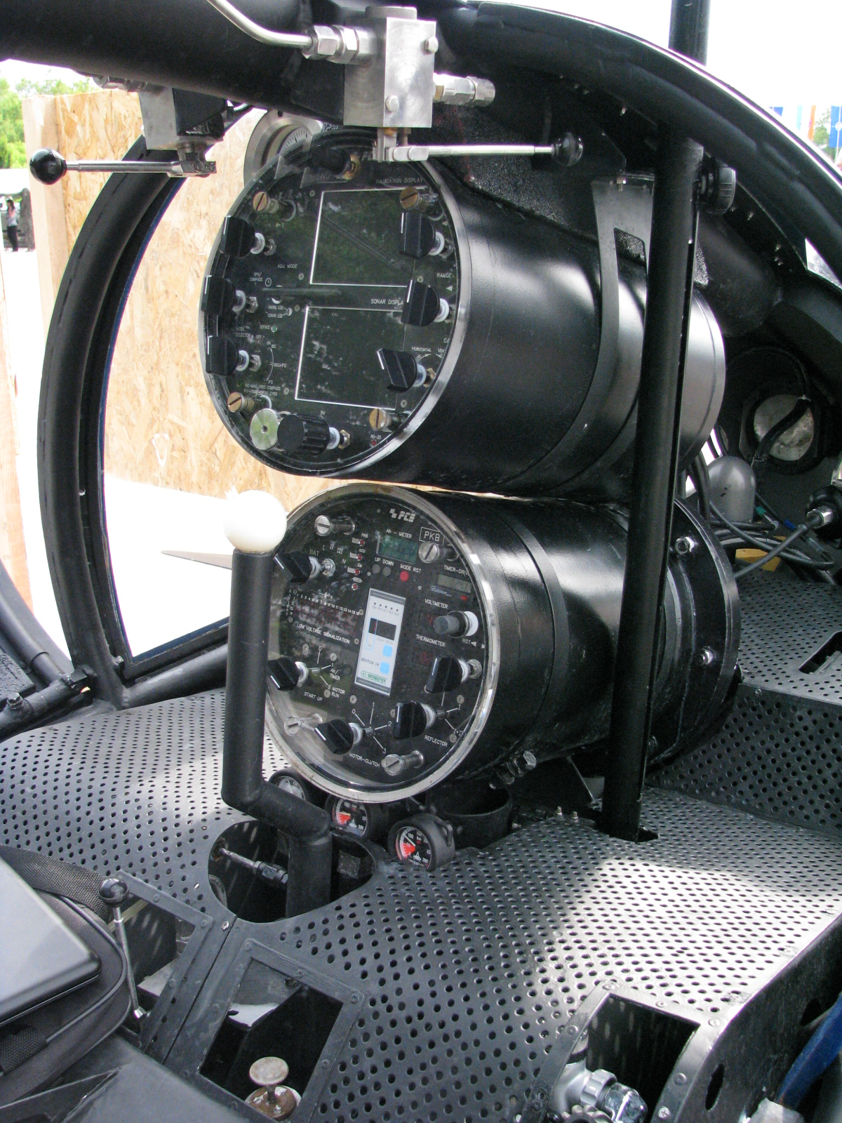 Croatian R-2M submersible